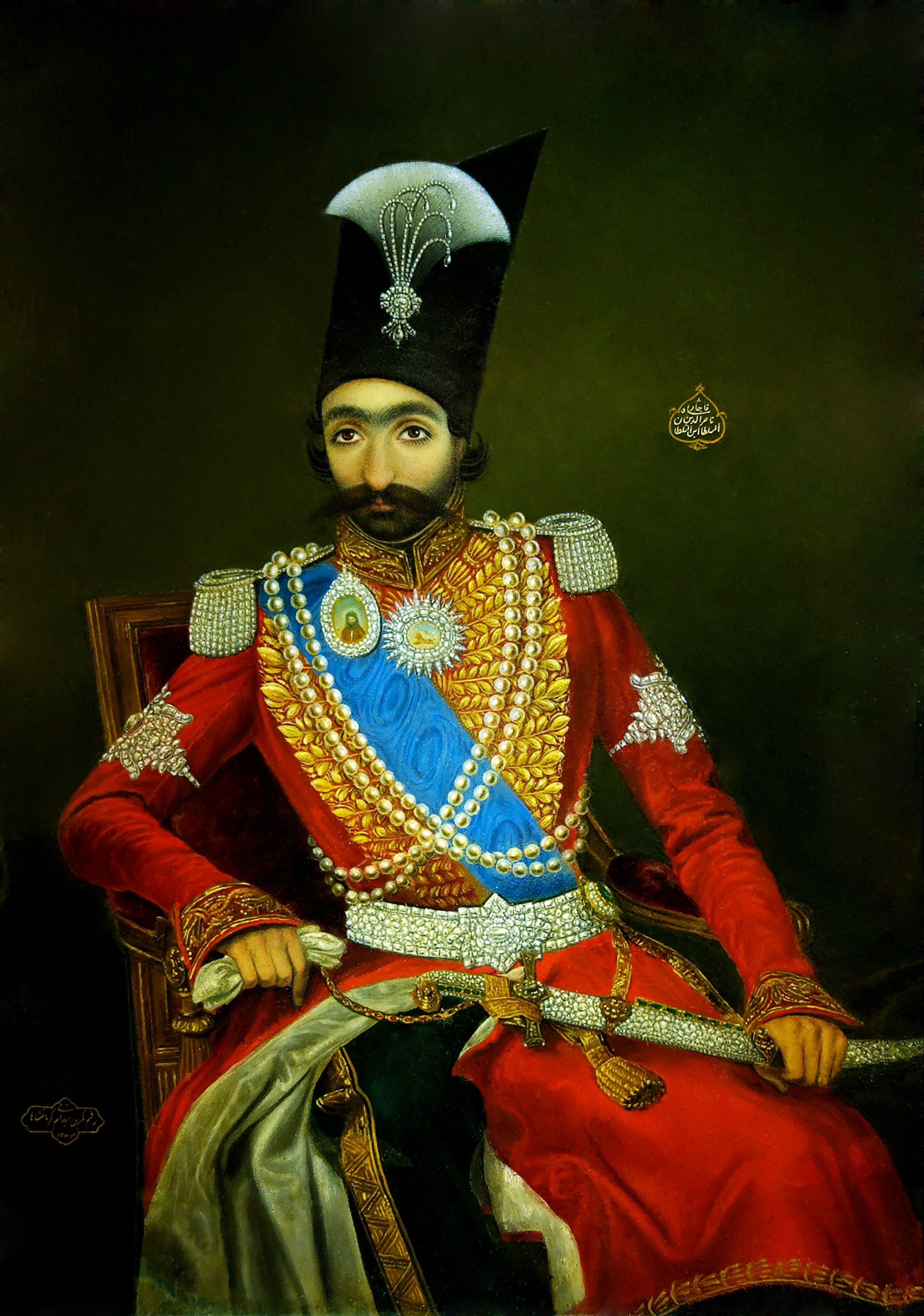 Portrait of Nasser al-Din Shah Qajar (1831–1896), Persian king